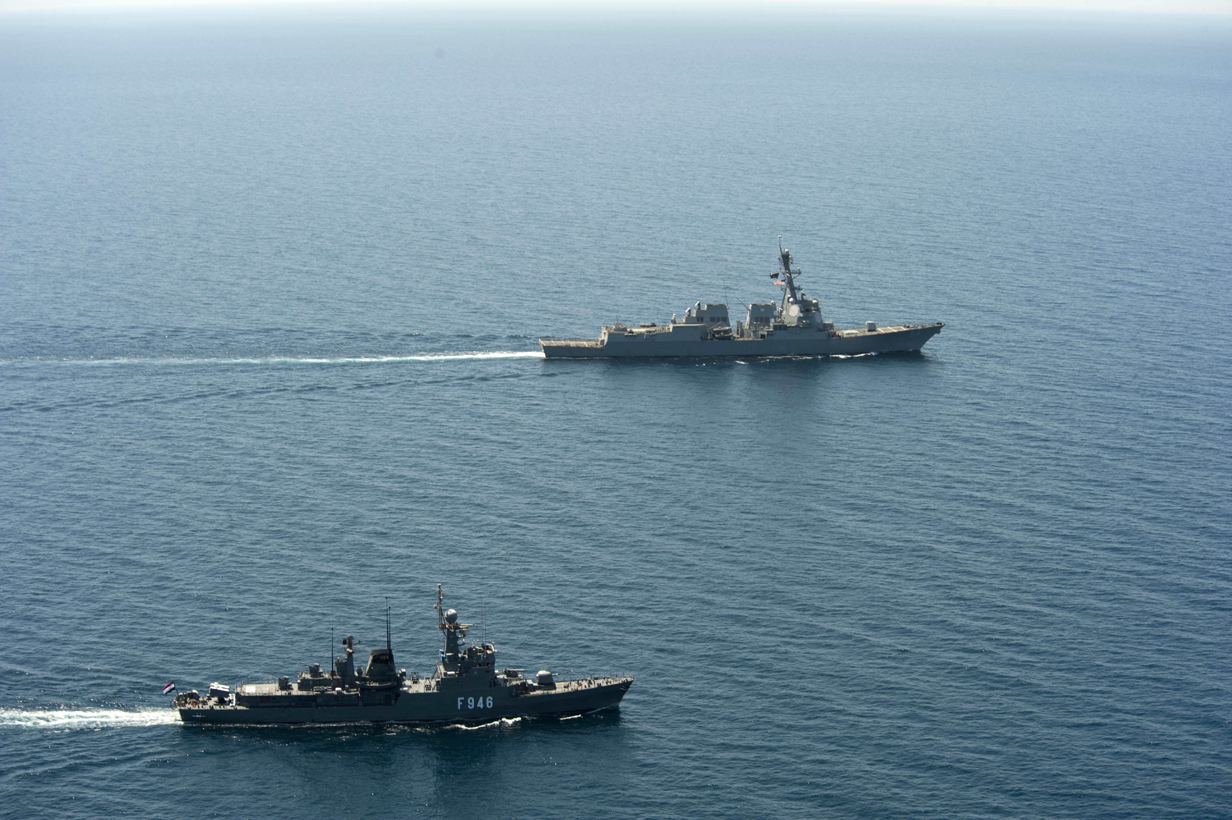 RED SEA (April 6, 2012) The guided-missile destroyer USS Nitze (DDG 94) transits alongside the Egyptian Navy corvette Aboukir (F946) during a passing exercise. Nitze is deployed to the U.S. 5th Fleet area of responsibility conducting maritime security operations, theater security cooperation efforts and support missions for Operation Enduring Freedom. (U.S. Navy photo by Mass Communication Specialist 3rd Class Jeff Atherton/Released) 120406-N-AP176-148 Join the conversation navylive.dodlive.mil